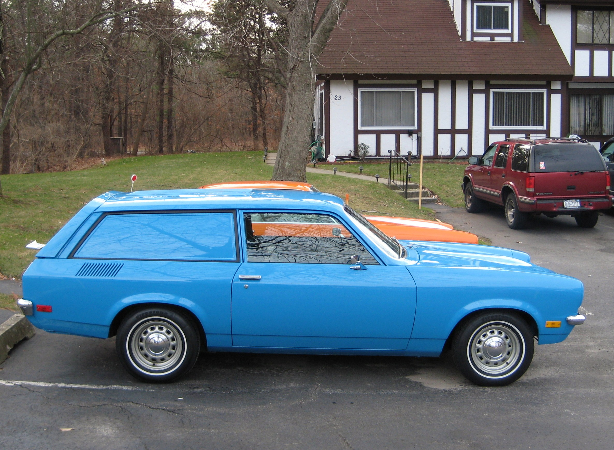 1971 Chevrolet Vega Panel Express